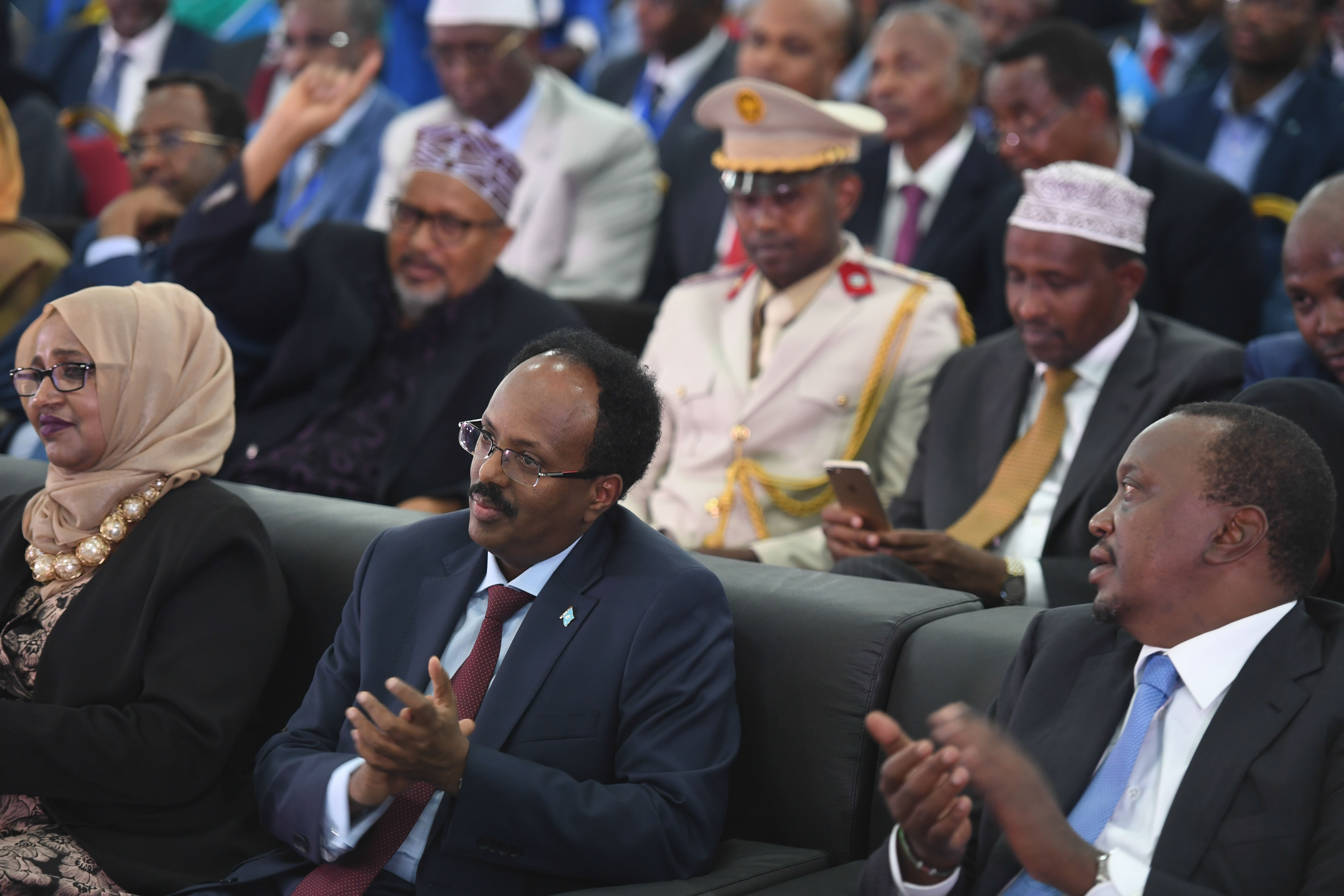 The President of Kenya, Uhuru Kenyatta (right), the President of Somalia Mohamed Abdullahi Farmaajo (center( and other guests at the inauguration ceremony of President Farmajo in Mogadishu on February 22, 2017. AMISOM Photo / Ilyas Ahmed